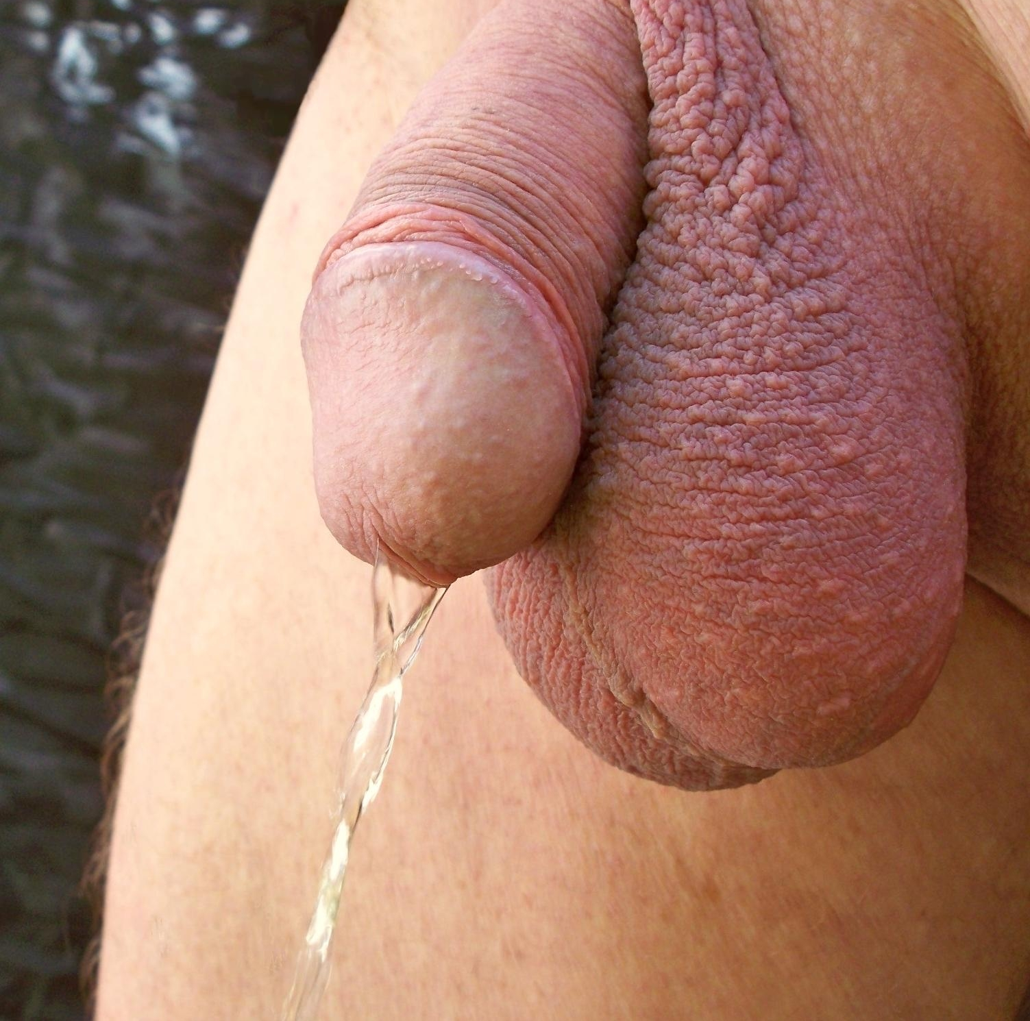 A human penis urinating with its foreskin retracted.